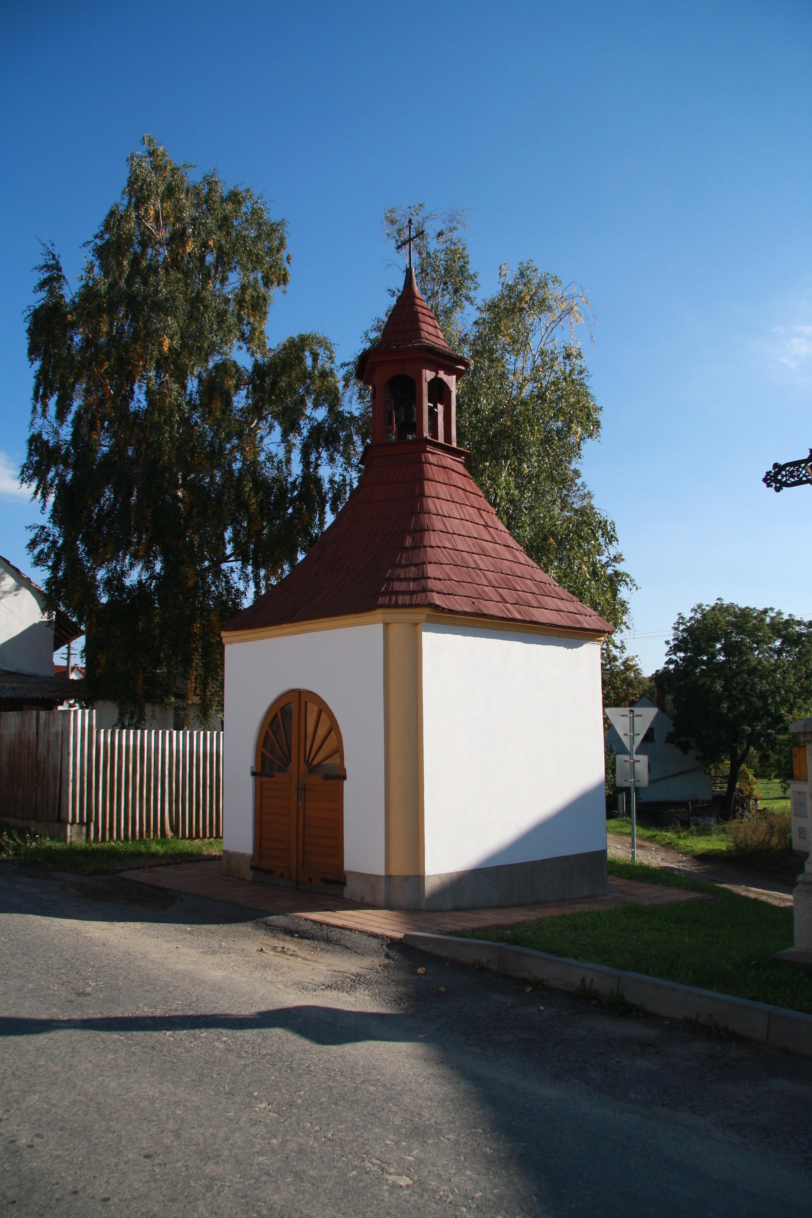 Chapel in Příštpo, Třebíč District.